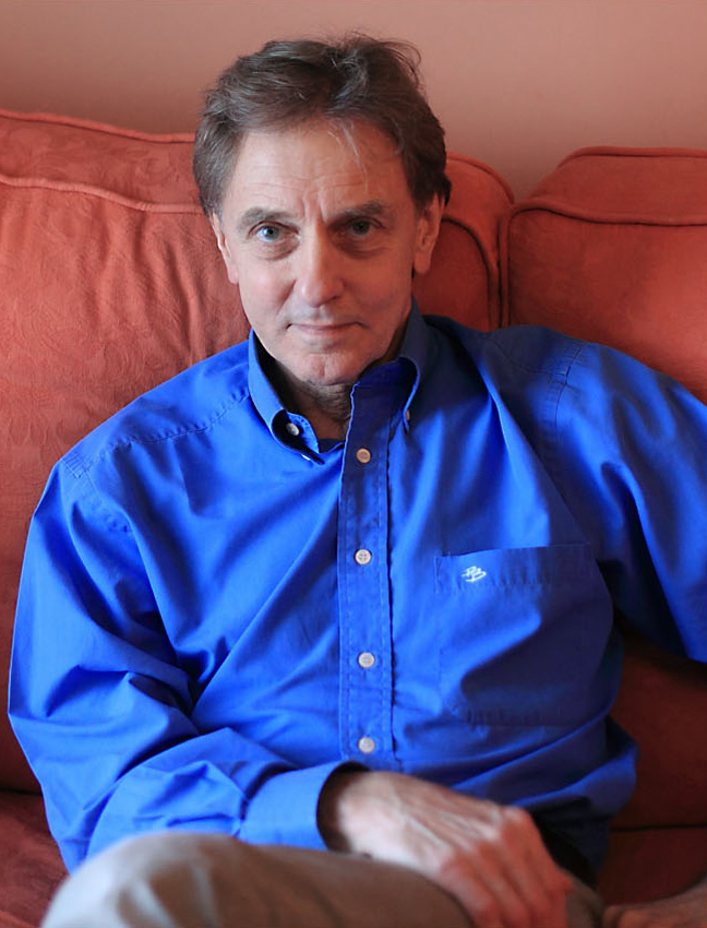 Colin Blakemore, photographed in London by Azimuth, 2012. Creative Commons Attribution